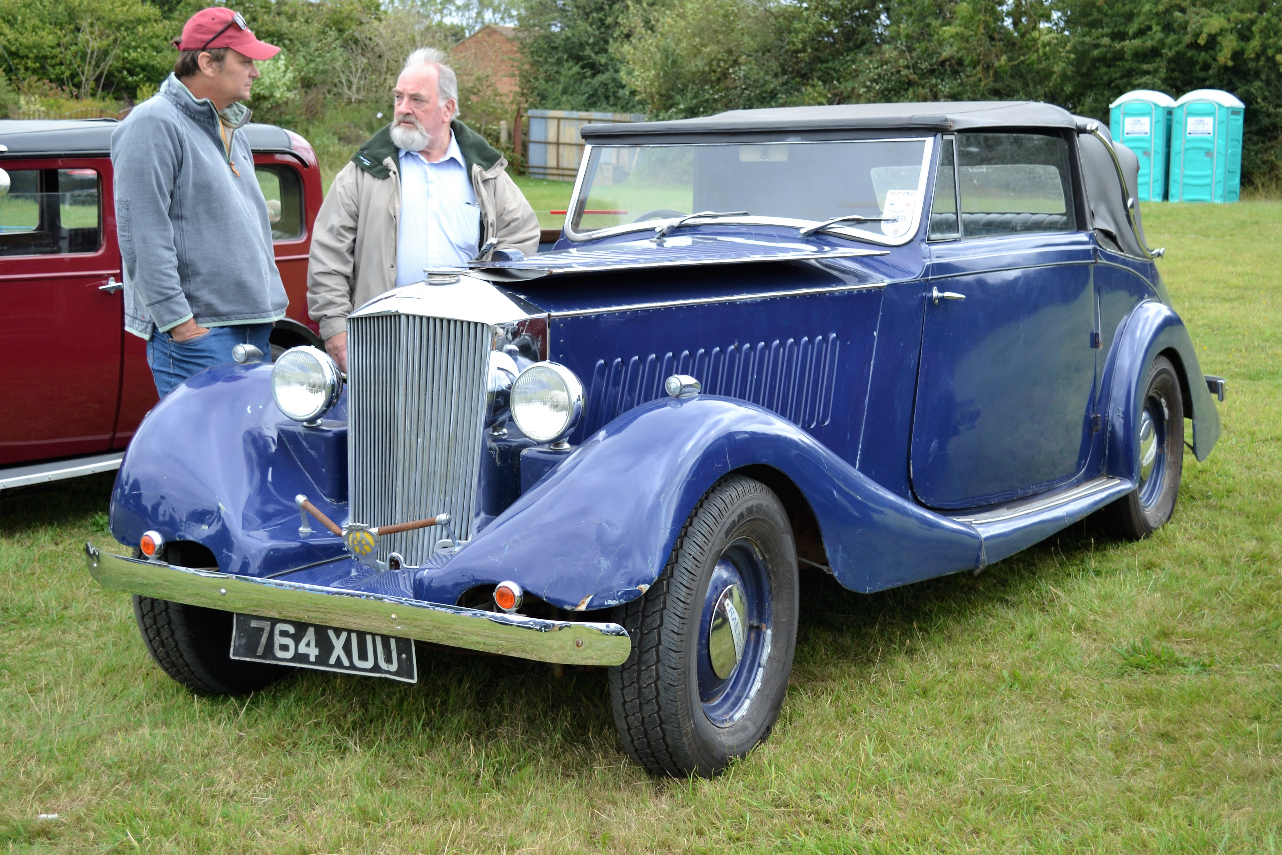 At Kensworth Rally Bedfordshire